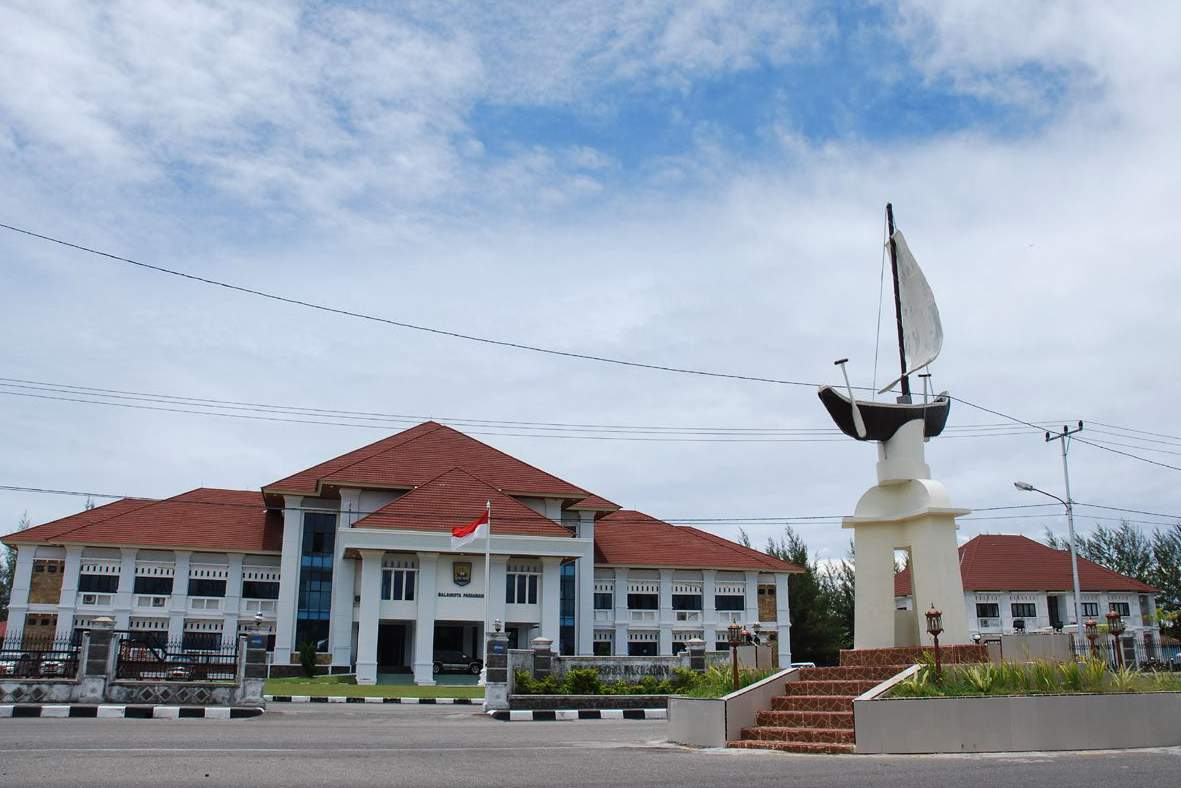 Balaikota Pariaman